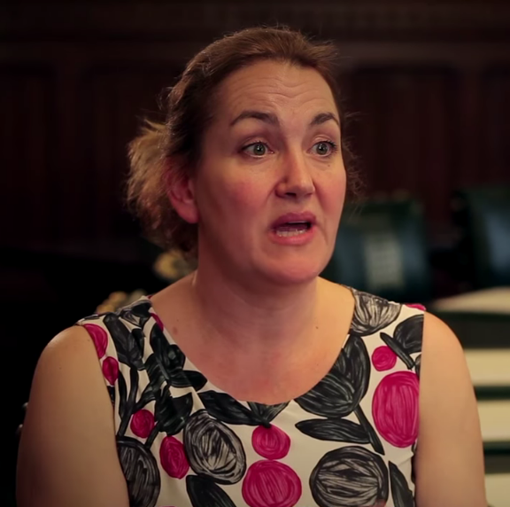 Natascha Engel, Member of Parliament for North East Derbyshire, interviewed about Westminster Hall committees.